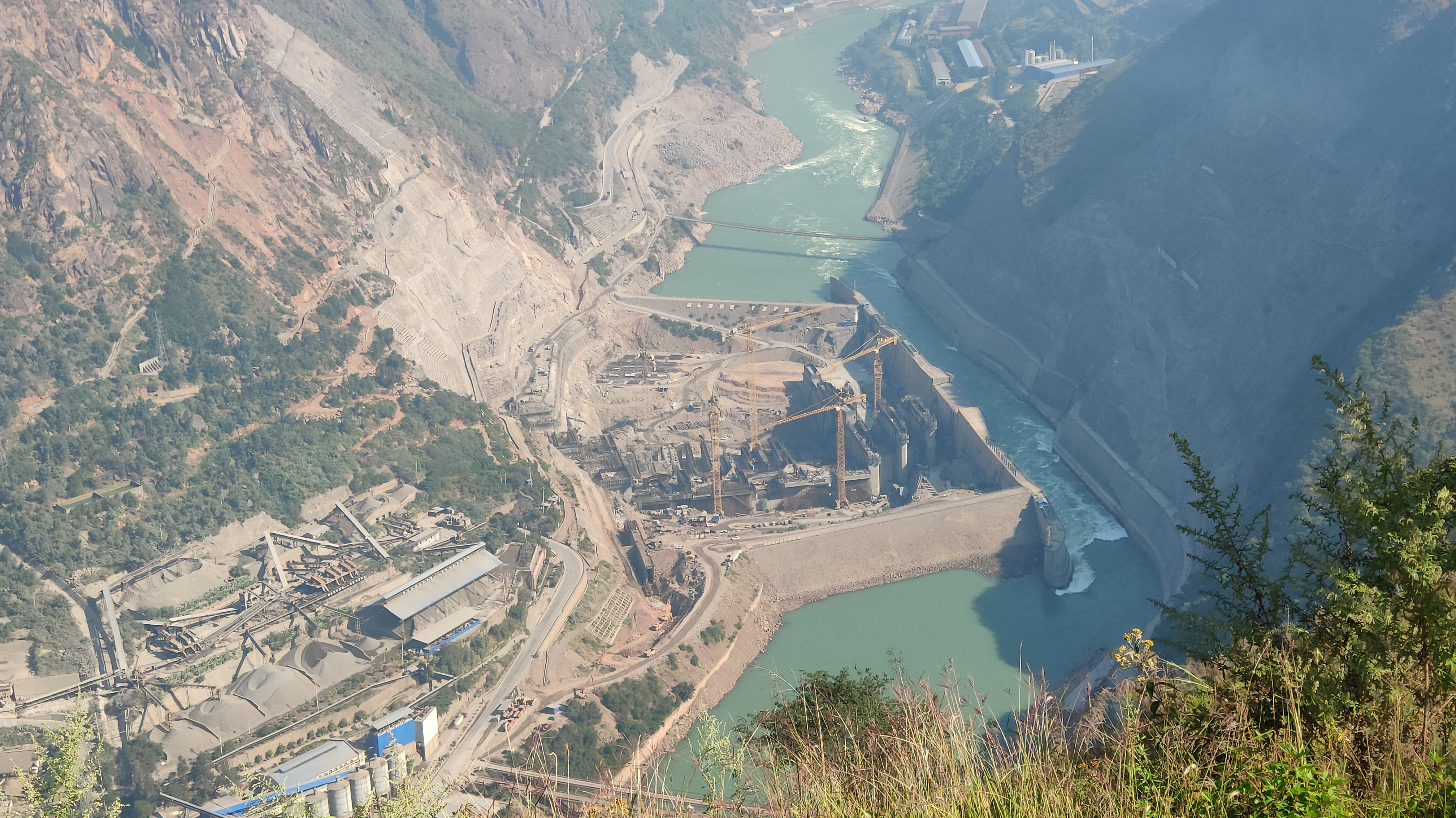 Jinsha Dam under construction on the Jinsha River in Panzhihua.